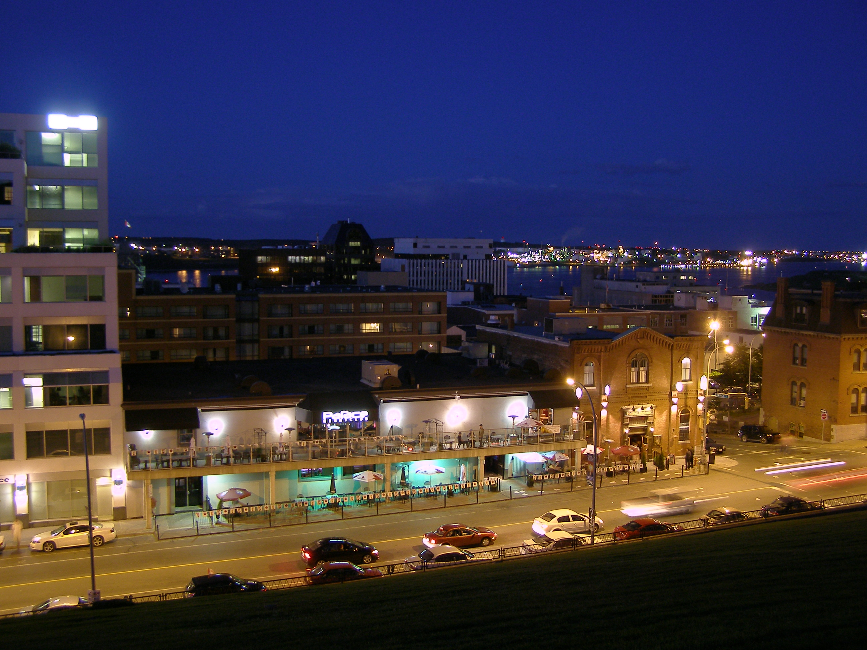 downtown Halifax (July 1 2007)